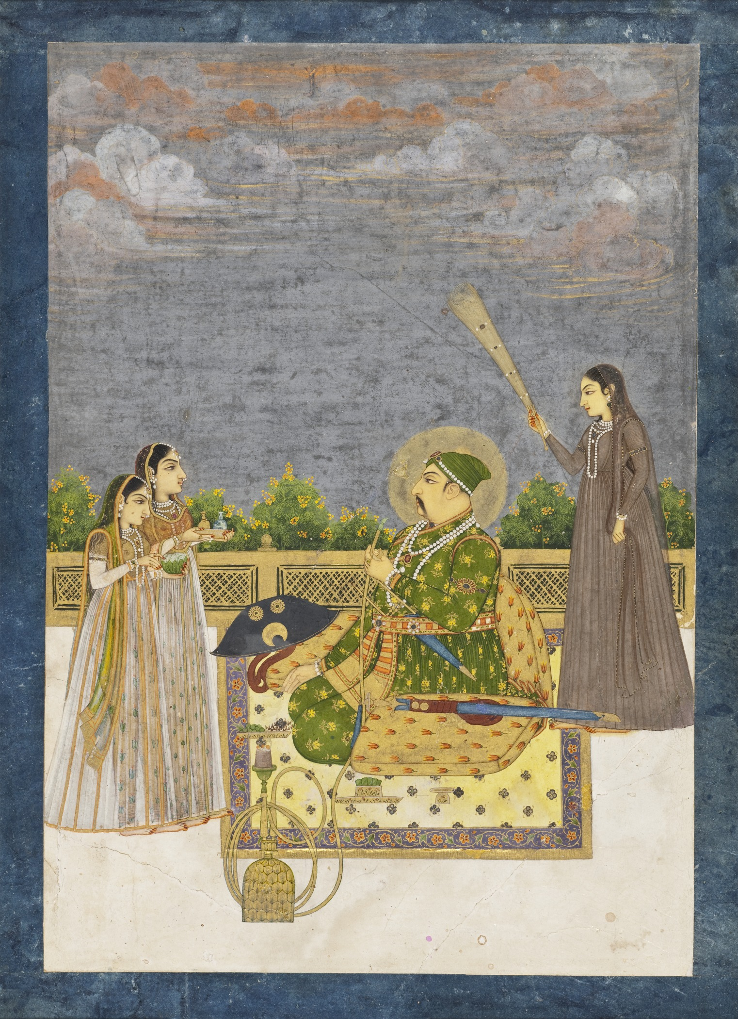 India, Delhi, Mughal empire, circa 1735 Drawings; watercolors Opaque watercolor, gold, and ink on paper Gift of Subhash Kapoor (AC1997.127.1) South and Southeast Asian Art